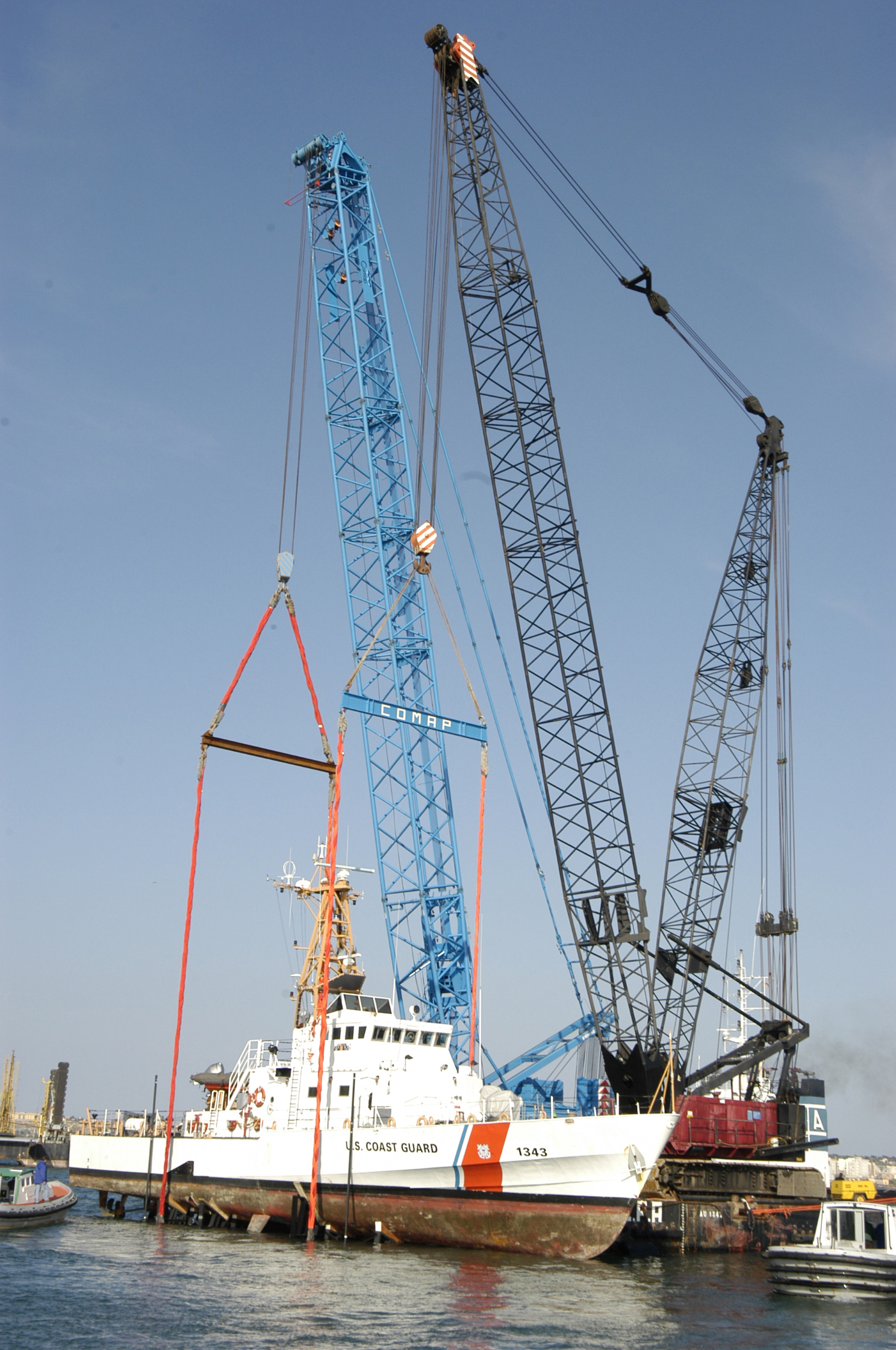 030318-N-9693M-002 Augusta Bay, Sicily (Mar. 18, 2003) -- Two cranes work in tandem from a barge to lower a U.S. Coast Guard (USCG) patrol boat into the water. Four USCG boats were shipped aboard a cargo vessel from various bases in the United States for duty in the Mediterranean. The boats and crews have been forward deployed to protect ports frequented by the United States and it's allies, who are in the region-conducting missions in support of Operation Enduring Freedom. U.S. Navy Photo by Photographer's Mate 2nd Class Damon J. Moritz (RELEASED)